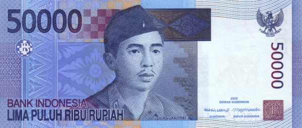 Indonesian currency issued 1998-2005.